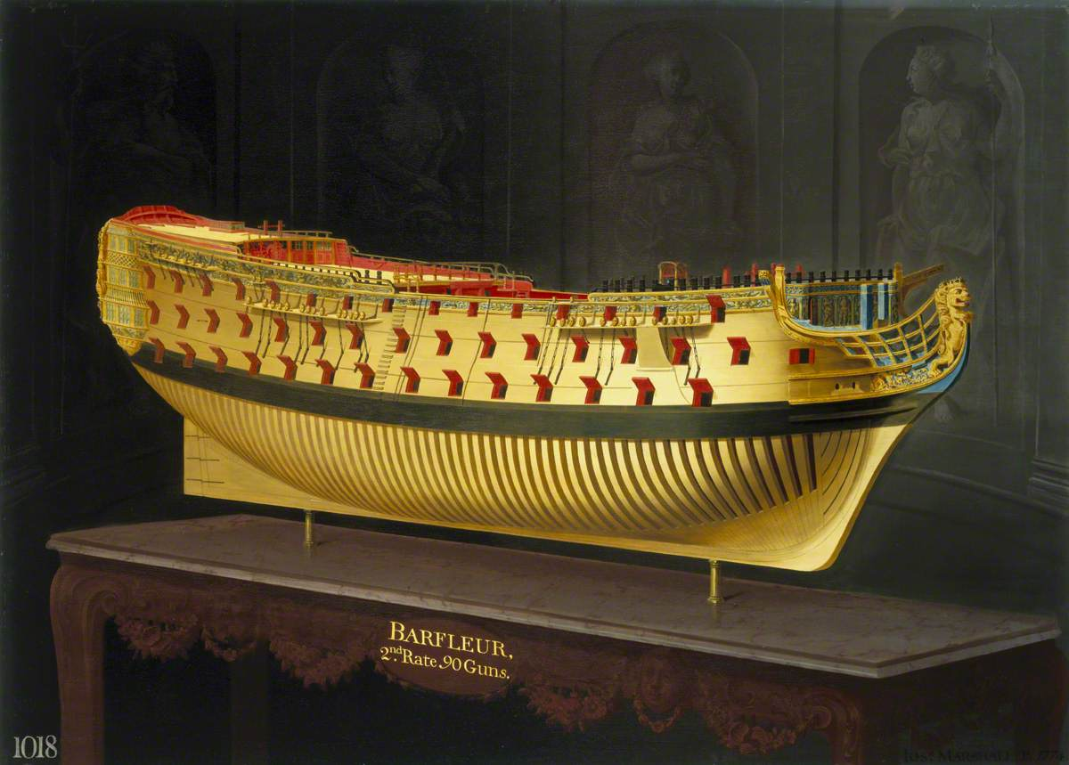 HMS 'Barfleur', by Joseph Marshall Medium oil on panel Measurements H 75 x W 104.5 cm Accession number 1864-11/1